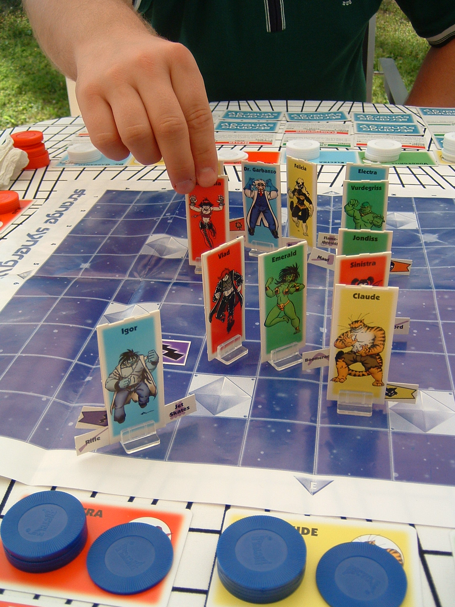 View of a game of Strange Synergy, a card and board game from Steve Jackson Games, played in Sweden